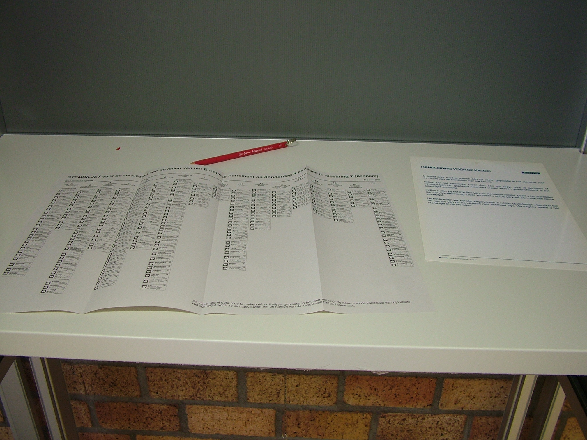 European Election 2009 in the Netherlands. Kieskring 7 (Arnhem): Stembiljet in cabine.